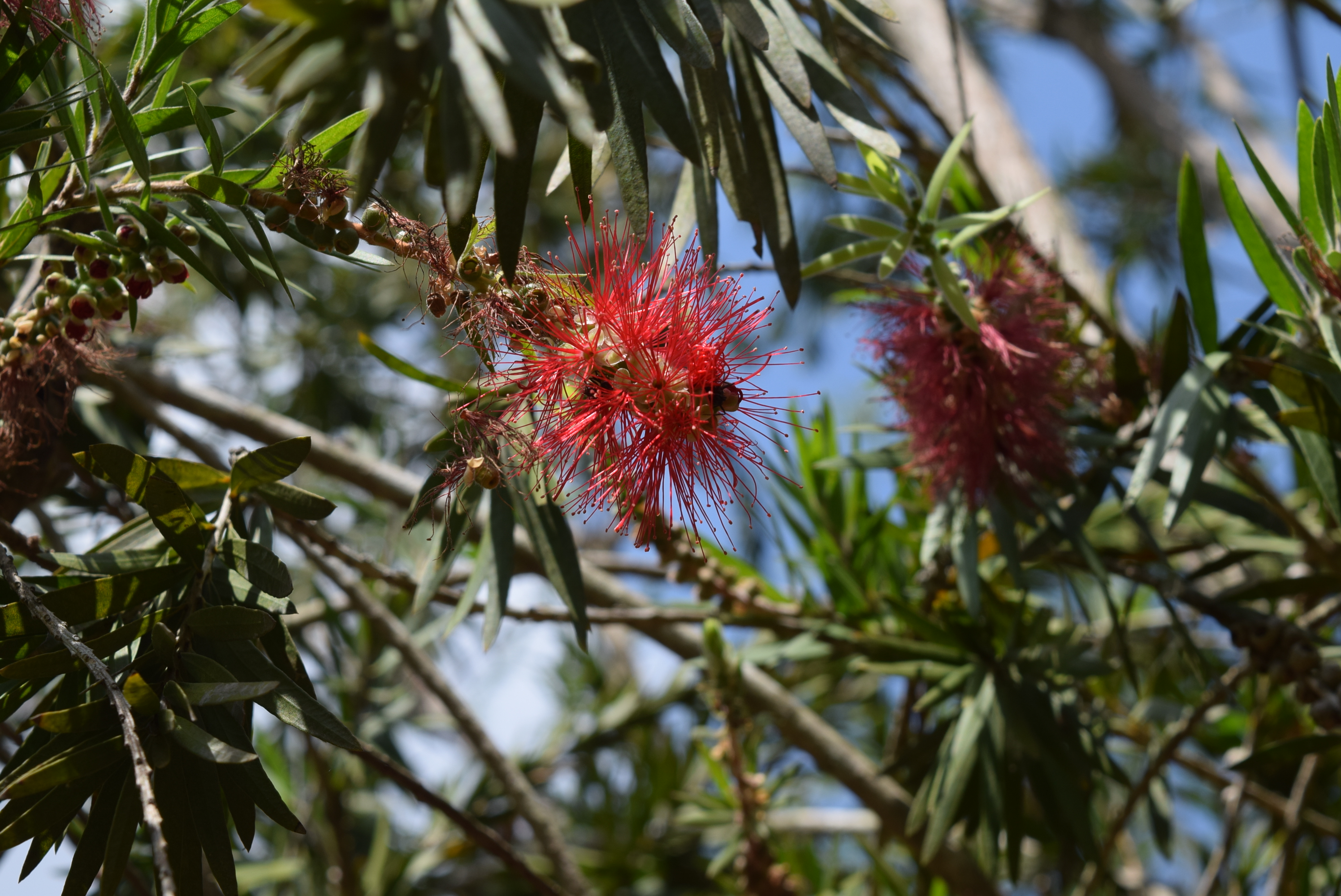 red bottle brush flowers; a tree